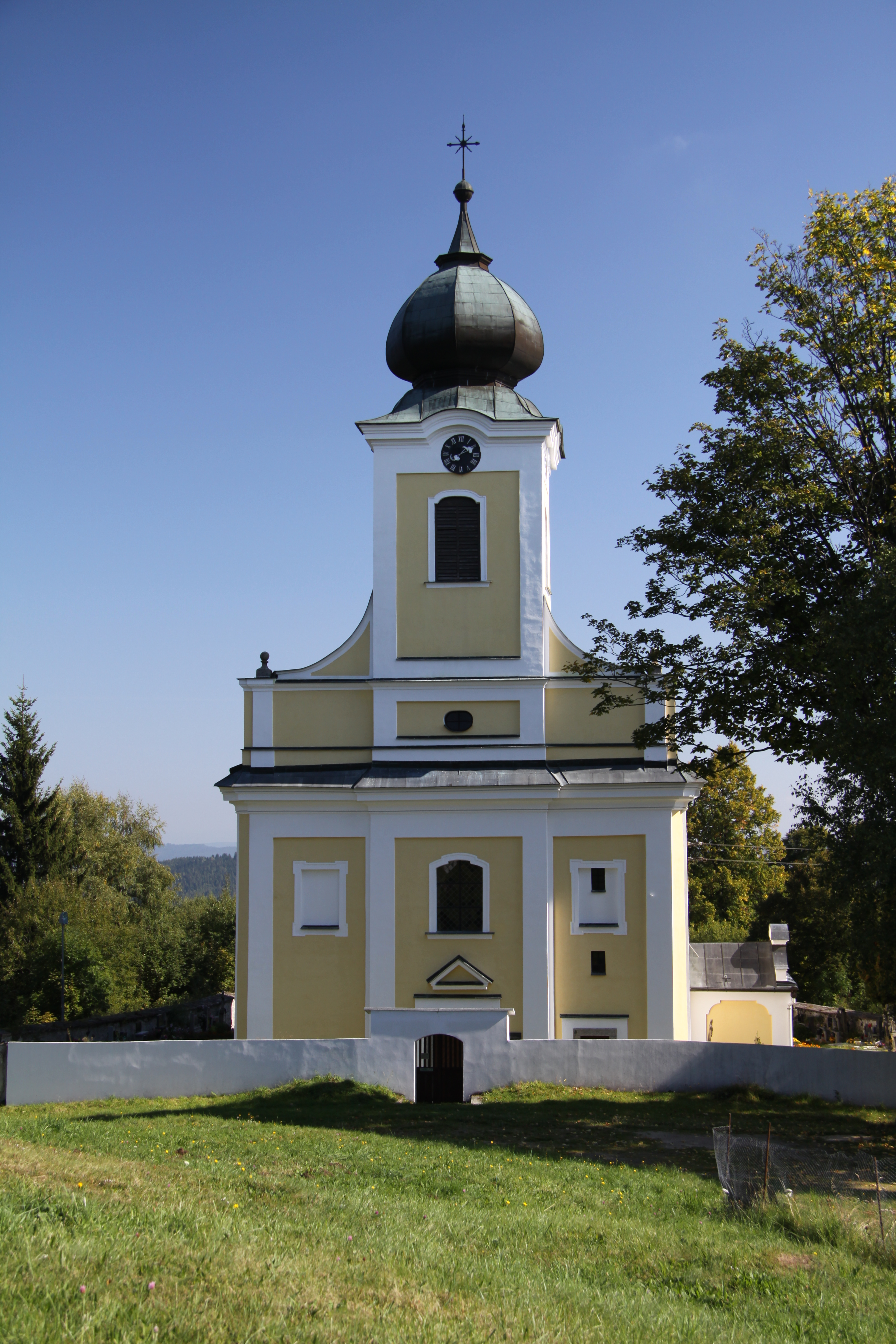 The Church in Lštění, part of Radhostice municipality, Prachatice District, Czech Republic